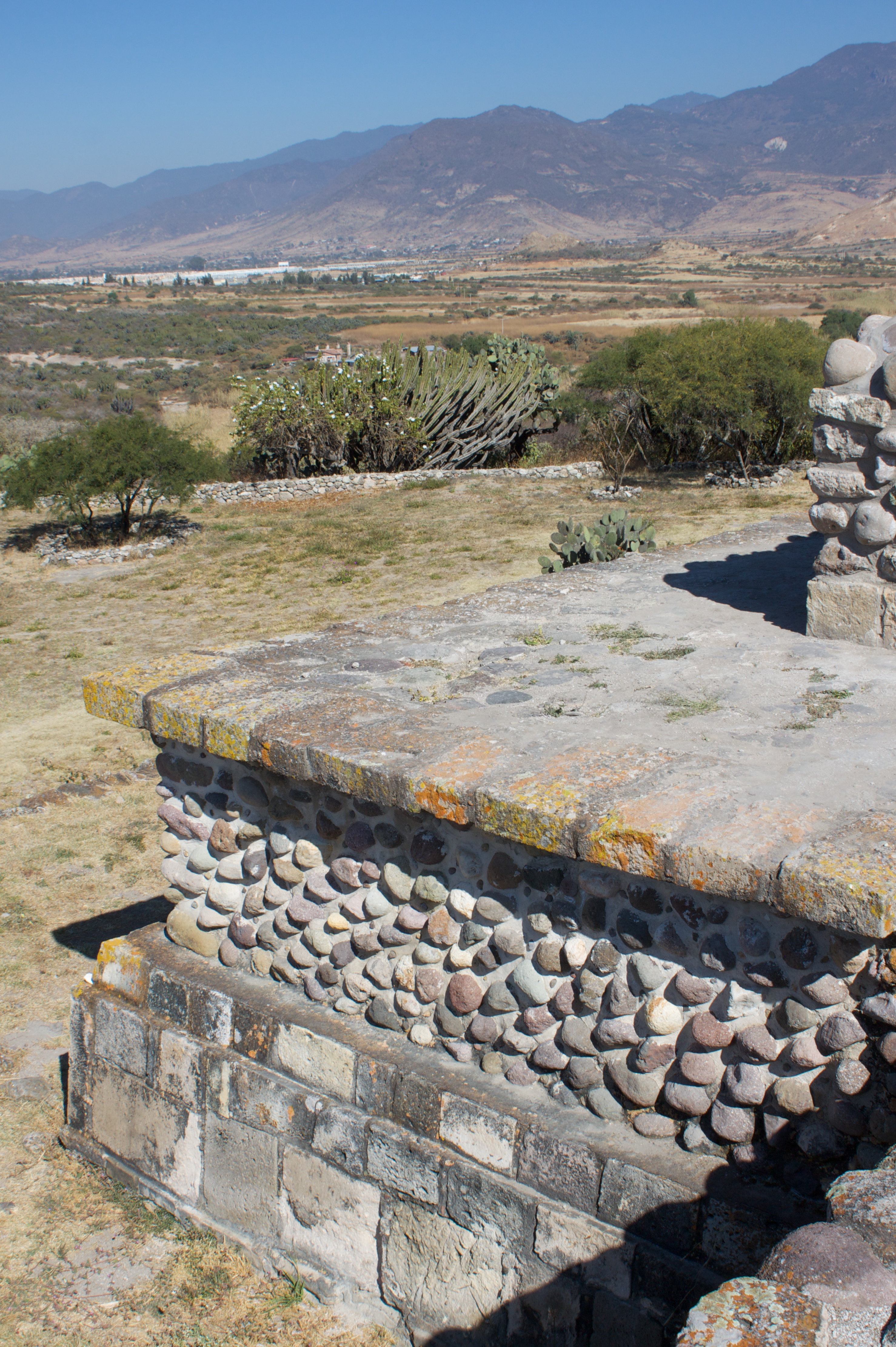 Yagul talud